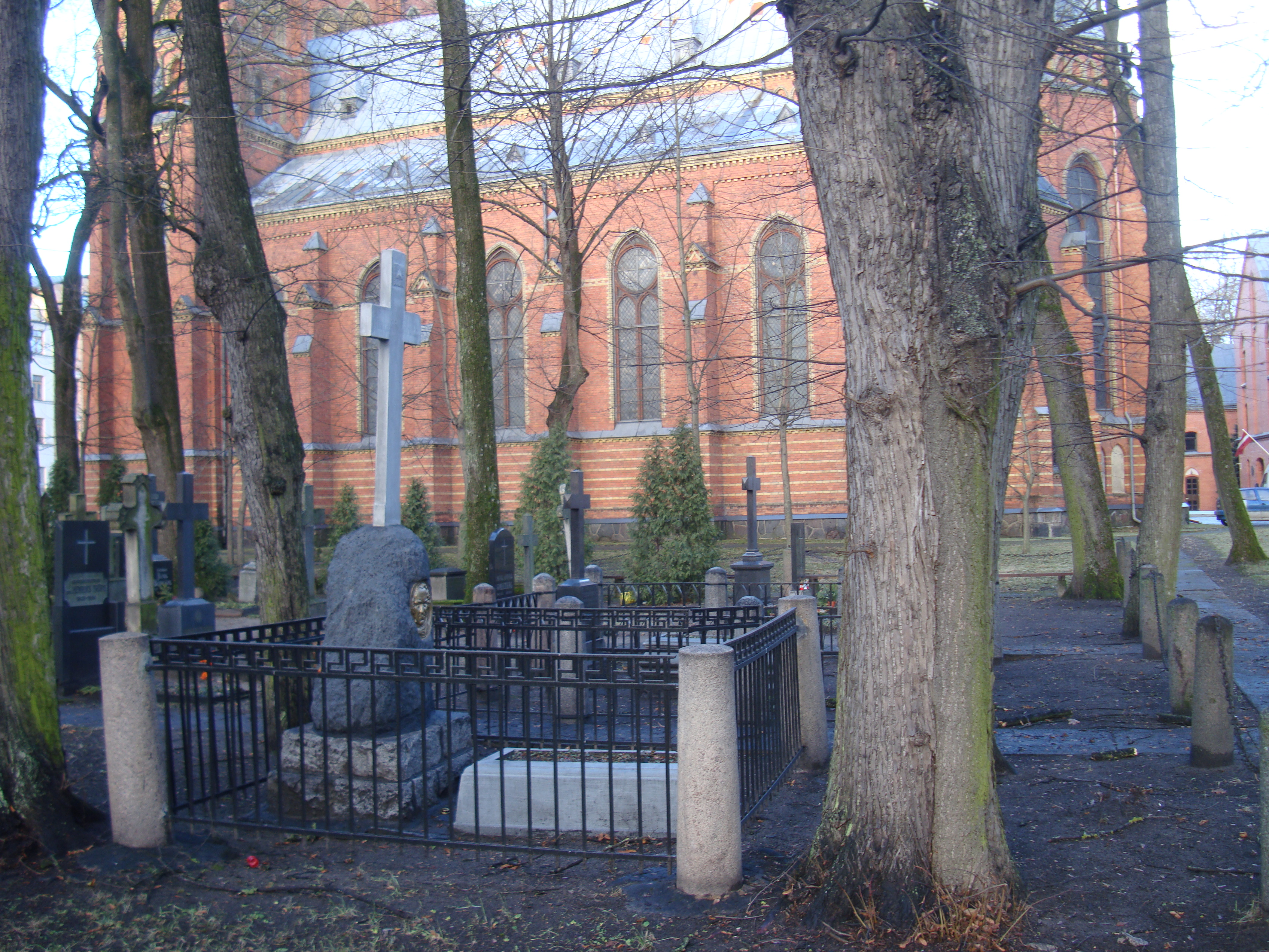 Maskavas forštate11